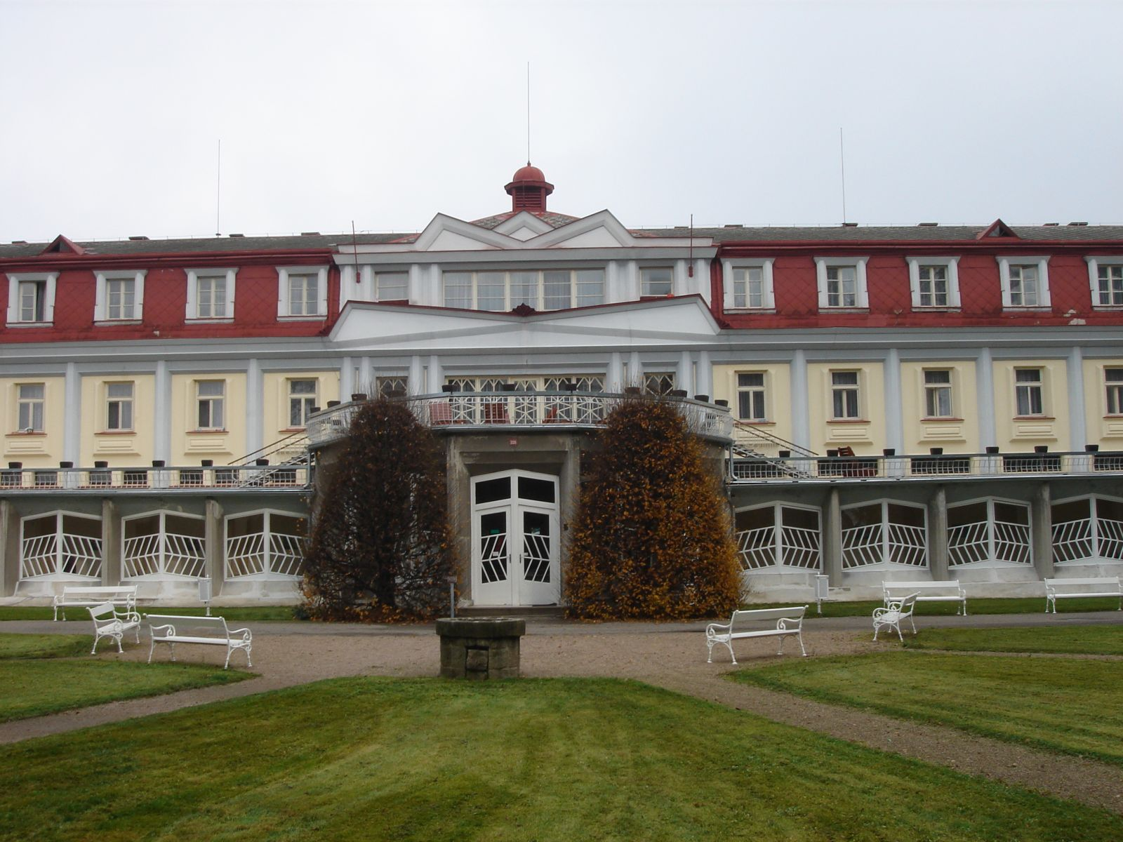 Lázně Bohdaneč - View NE on Pavilion Gočár - Cubist Architecture 1913